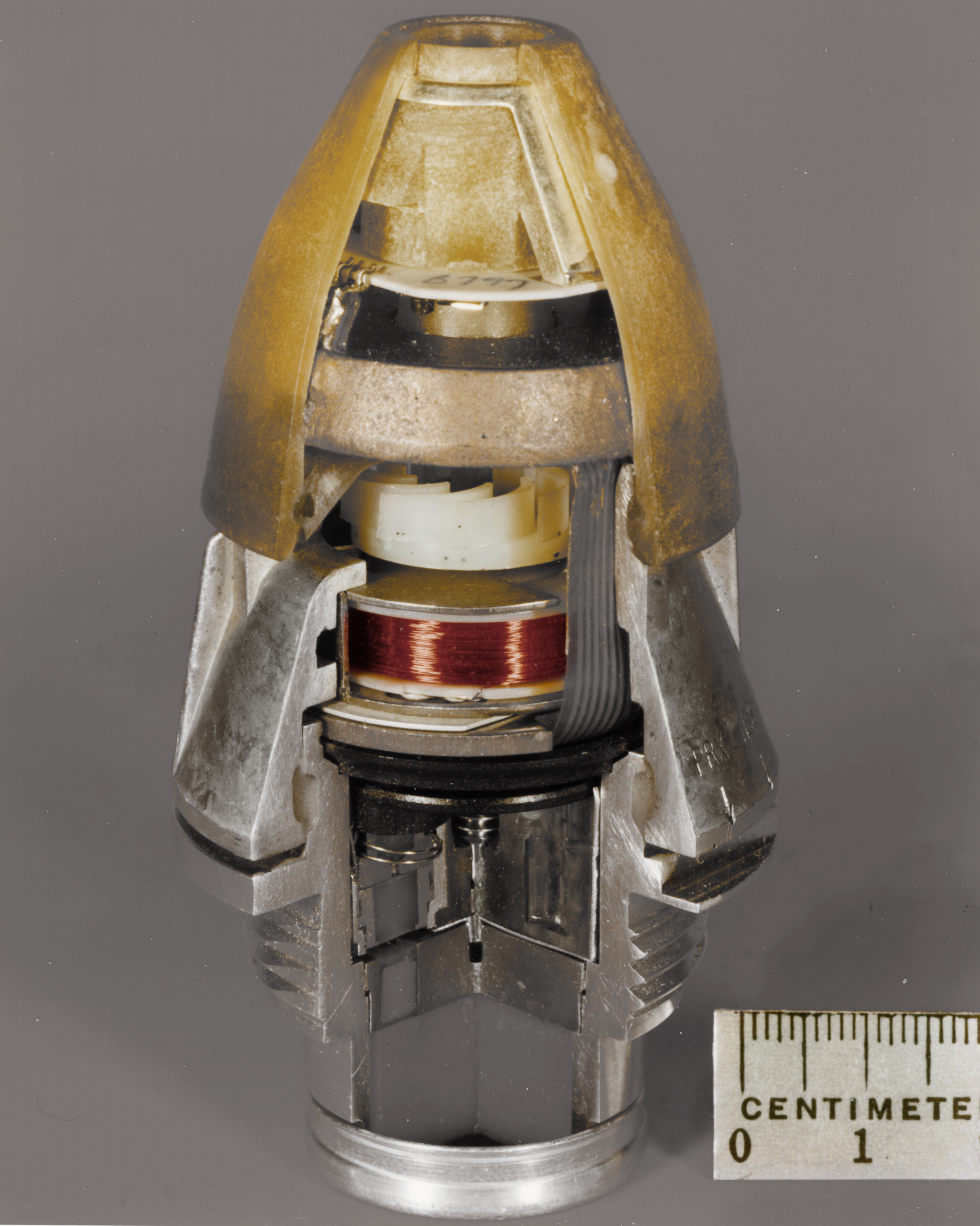 Cross section photograph view of M734 Fuze.